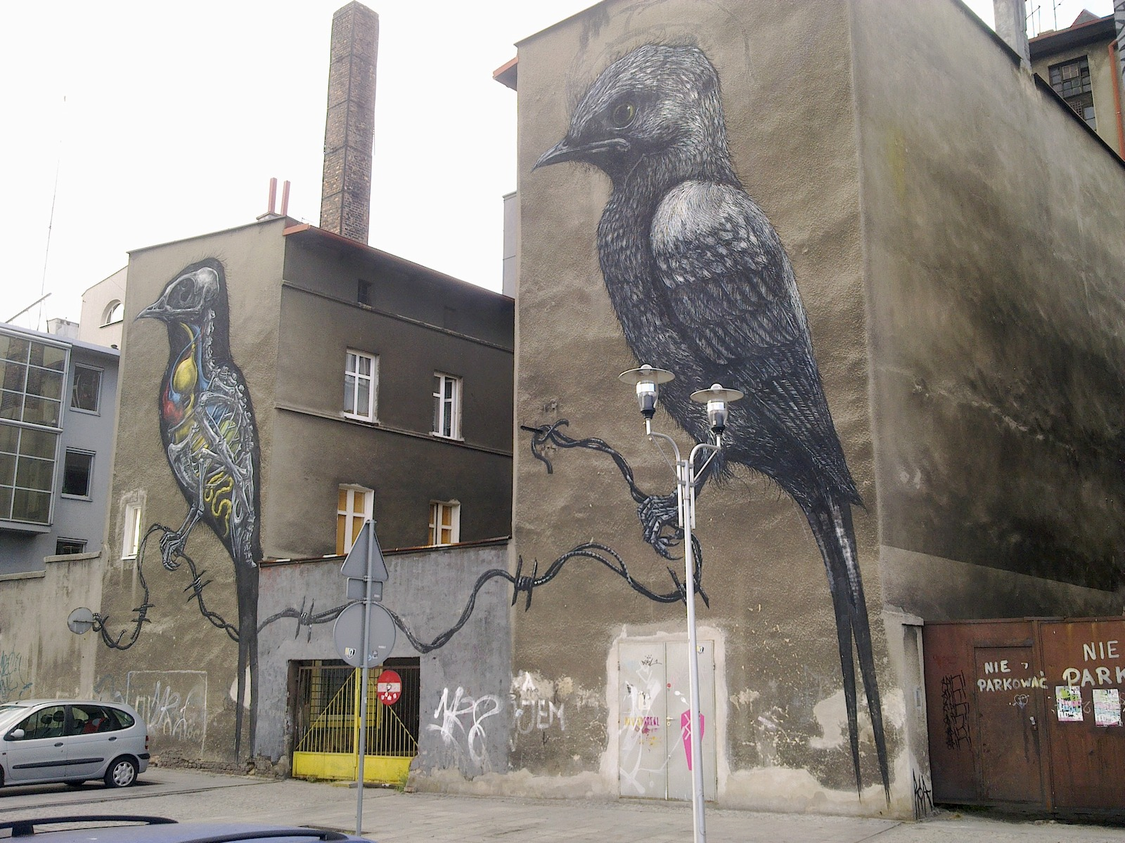 Katowice, Poland. Street art by Belgian artist ROA at Mariacka Tylna street.